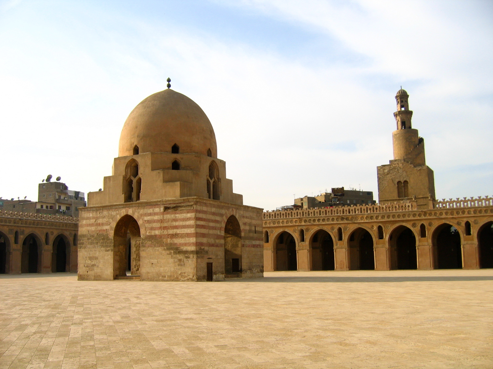 The mosque of Ibn Tuloon in Cairo, Egypt. (January 2009)